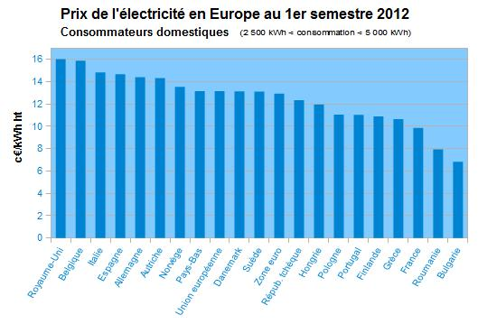 Electricity prices in Europe for residential consumers, 1st semester 2012 data source : Eurostat